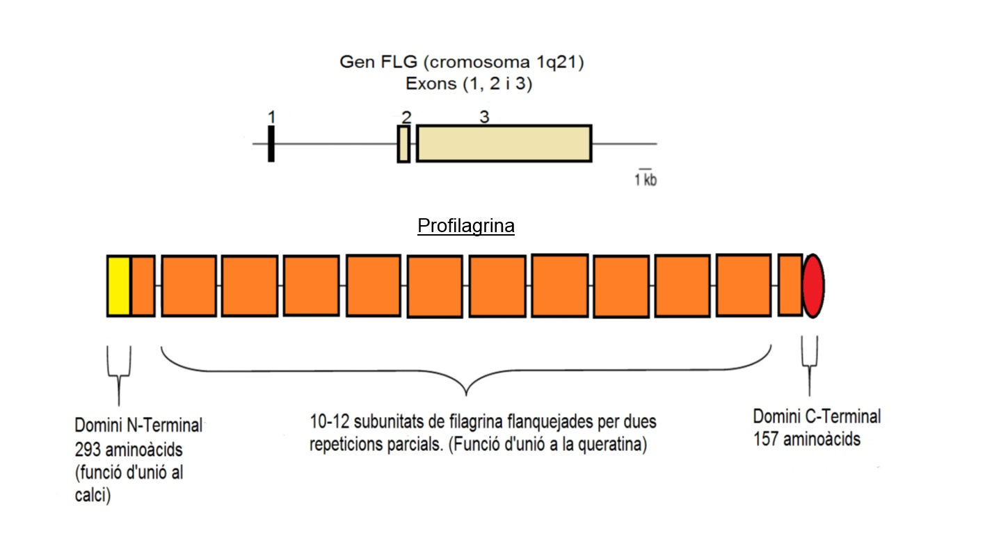 Gen FLG